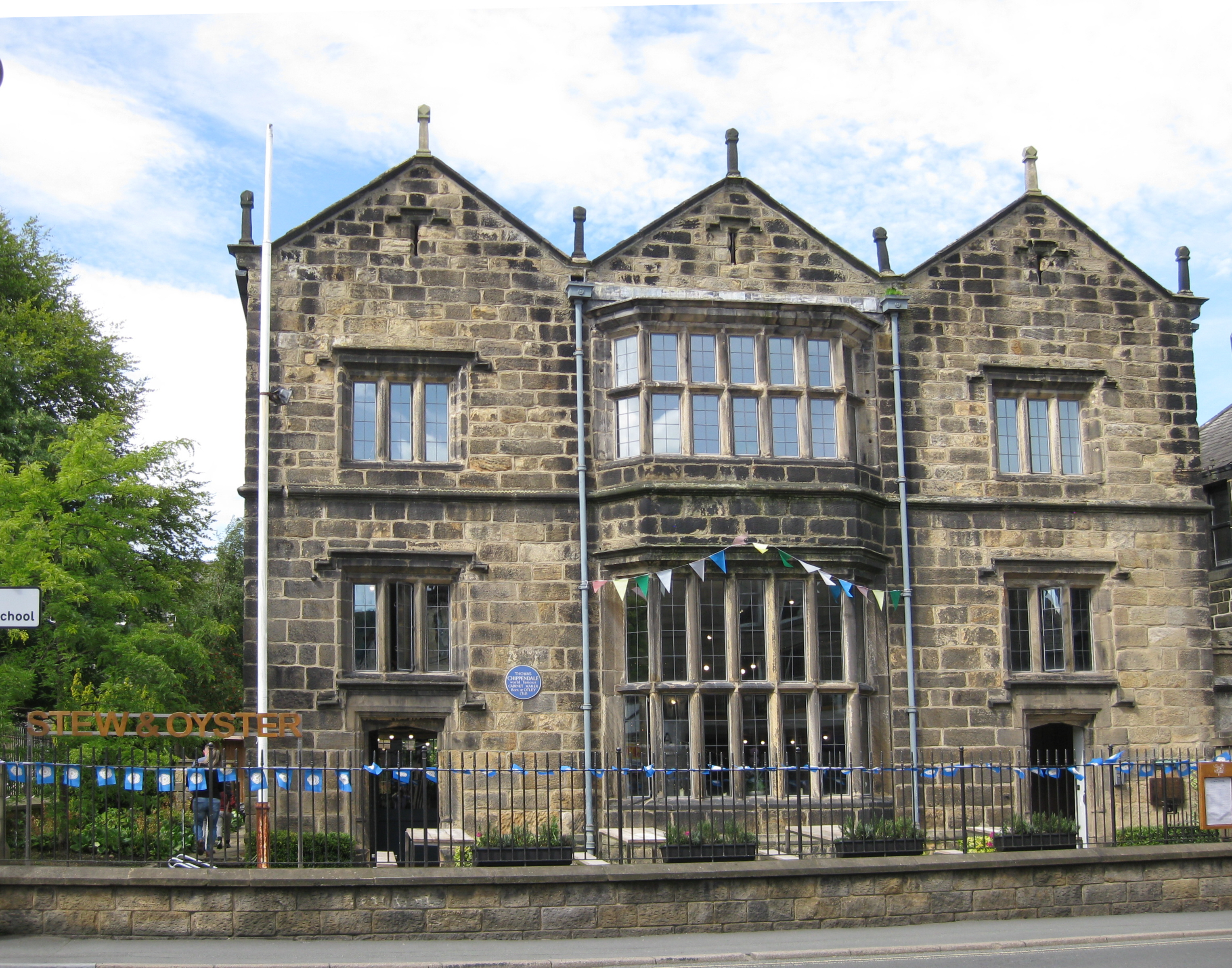 Stew & Oyster, The Old Grammar School, Manor Square, Otley LS21 3AY